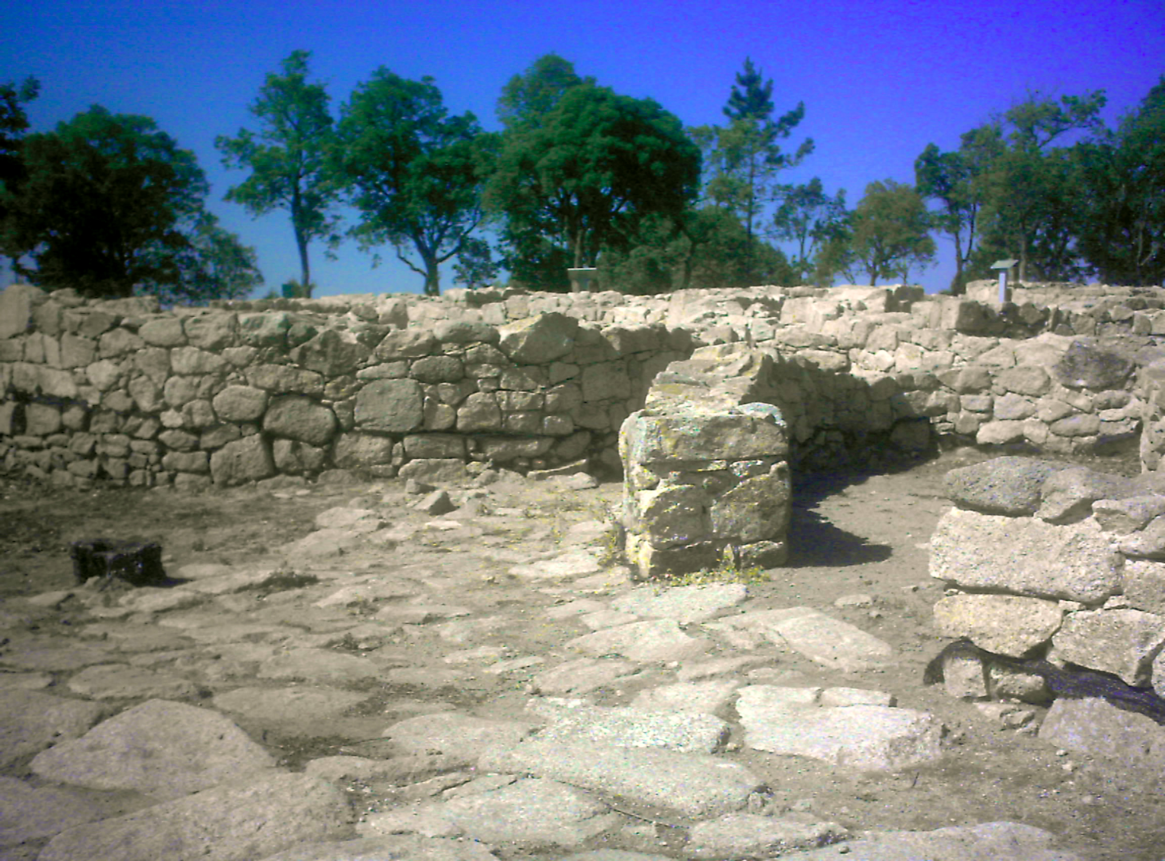 Pavement with flagstone in Cividade de Terroso